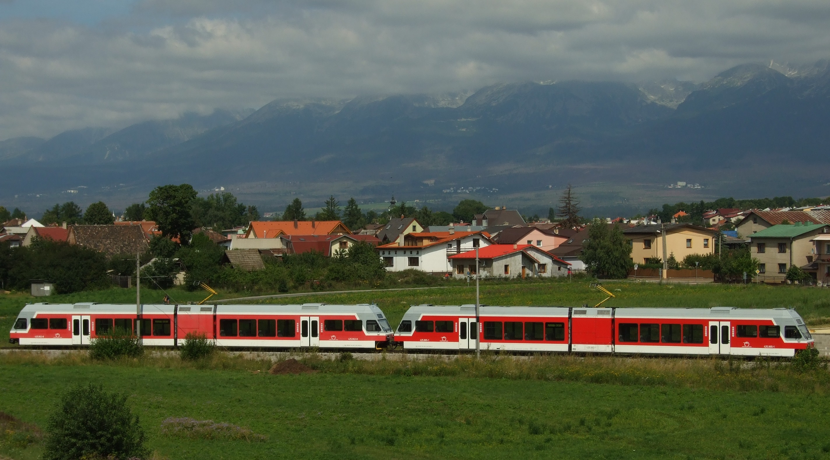 Two electric TEŽ (Tatra Electric Railway) trains near Poprad-Tatry train station. In the background, the High Tatras can be seen, SKhelp